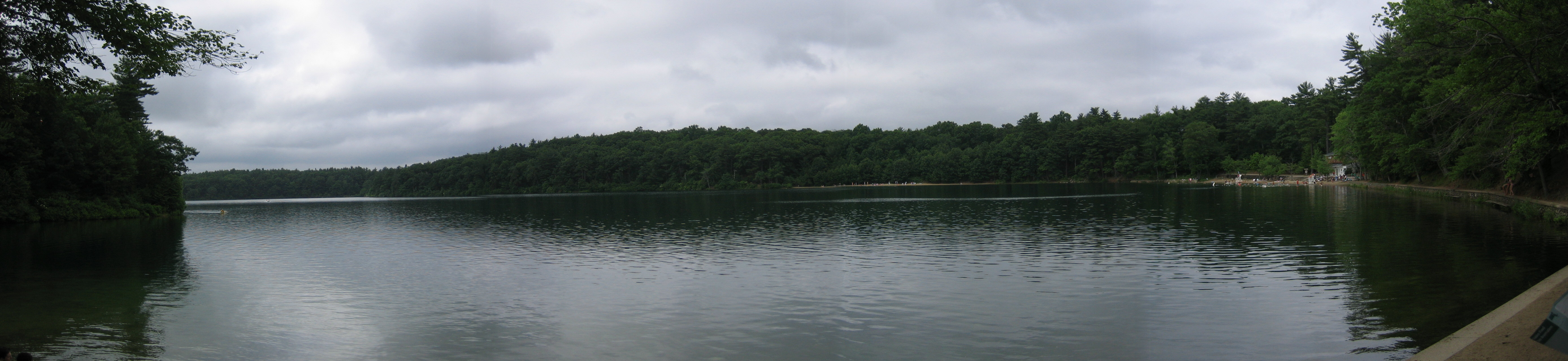 Walden Pond in Concord, Massachusetts, USA on July 1, 2005